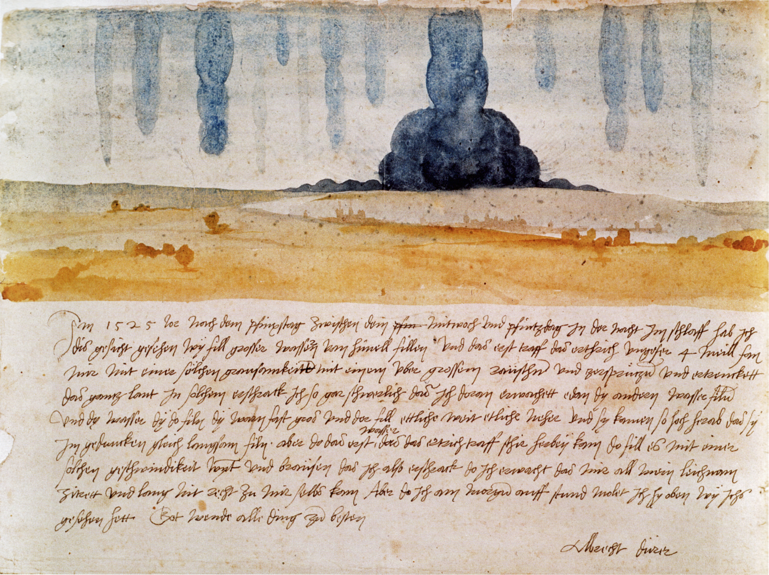 Traumgesicht (Dream face). Dürer records one of his nightmares. 30 x 42,5 cm, watercolour and ink on paper, Kunsthistorisches Museum, Vienna In the year 1525 after day of whitsun between wednesday and day of whitsun at night during sleep I have seen this face while large waters felt from sky And it met the soil abou 4 miles from myself with such crudelity with tremendous murmuring and spatter and drowning all the land In the course of this I frightened so hard that I woke up by this whilst the other waters felt down And the falling waters were very big and many of them felt far away and many near by and they came from a great height that in mind they slowley felt. But that water that met the soil came with heavy storm and swoosh that I frightened and my whole body trembled and I did not come to myself When I arised in the morning I painted the above as I saw it. God may change all things to the best Albrecht Dürer